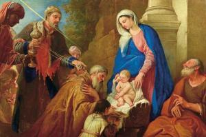 Adorazione Dei Magi by Giovanni Segala (1663-1720)